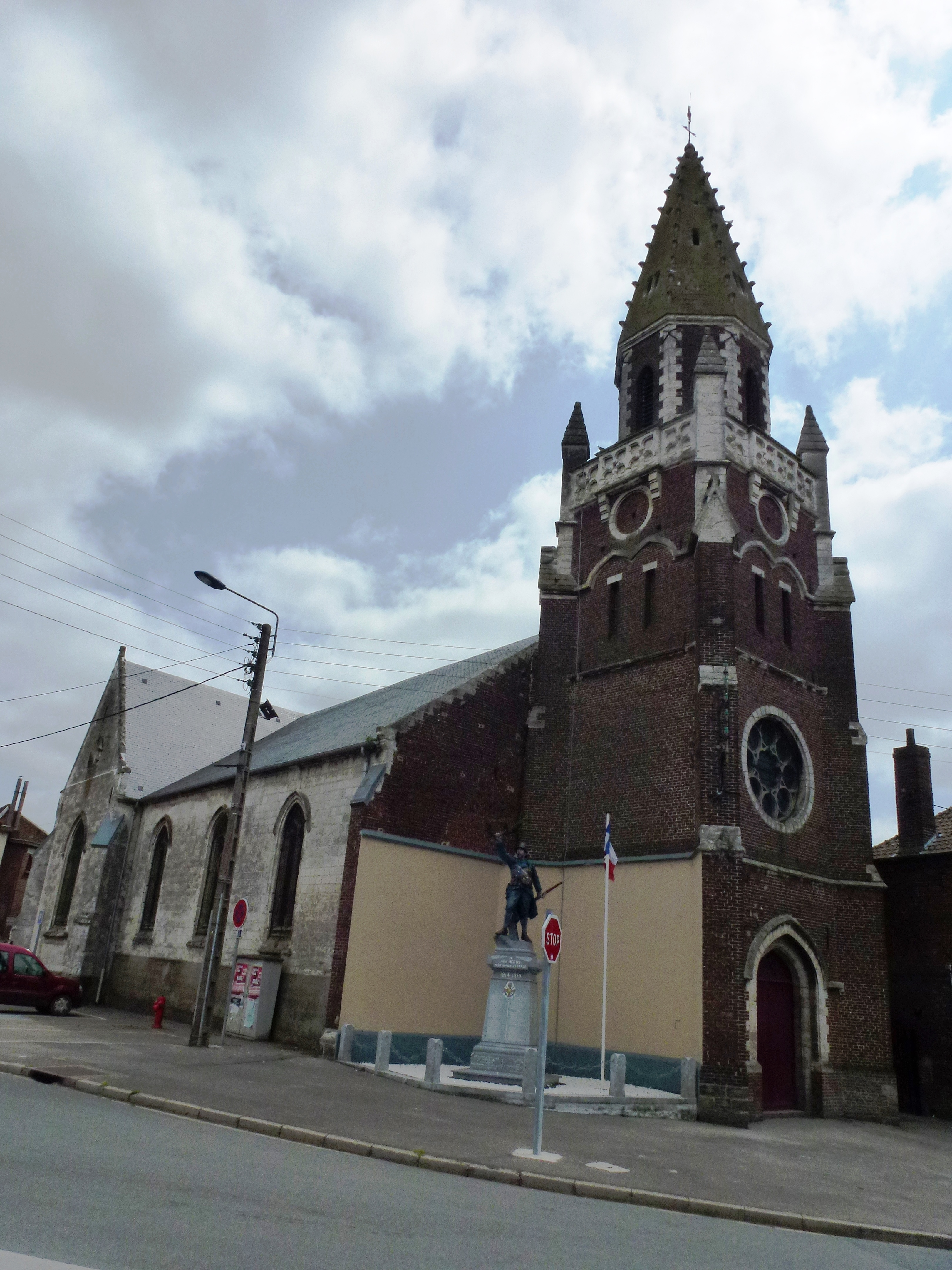 Isbergues Molinghem (Pas-de-Calais) église Saint-Maurice extérieur